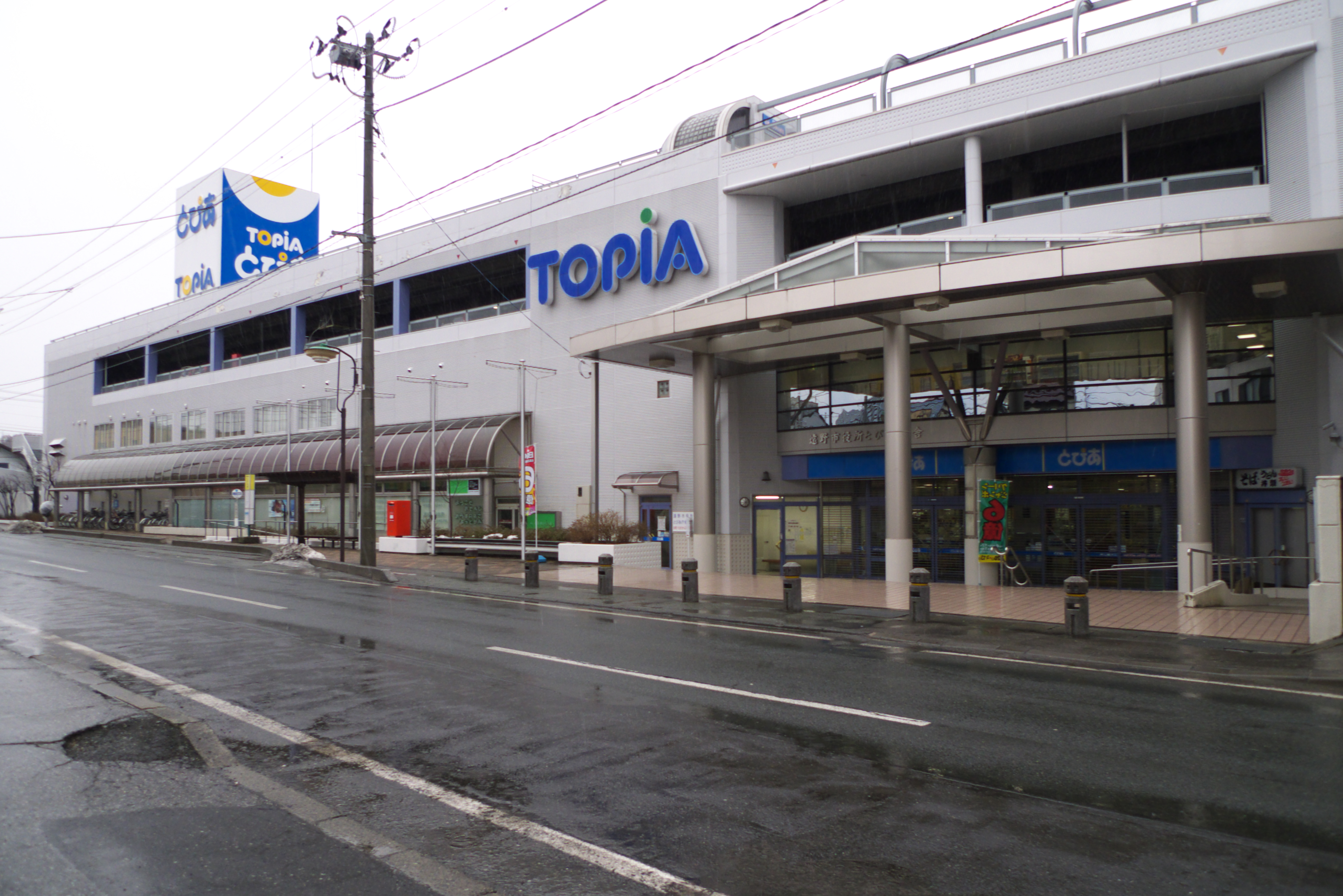 Tono Shopping Center "Topia" (Tono City Hall main building)